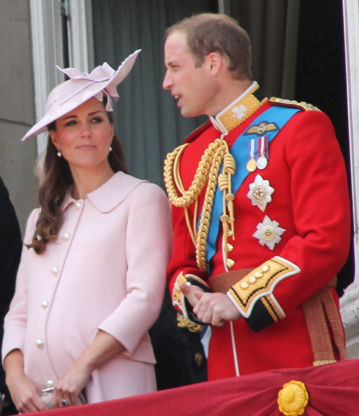 The Duke and Duchess of Cambridge and Prince Harry on the balcony of Buckingham Palace, June 2013